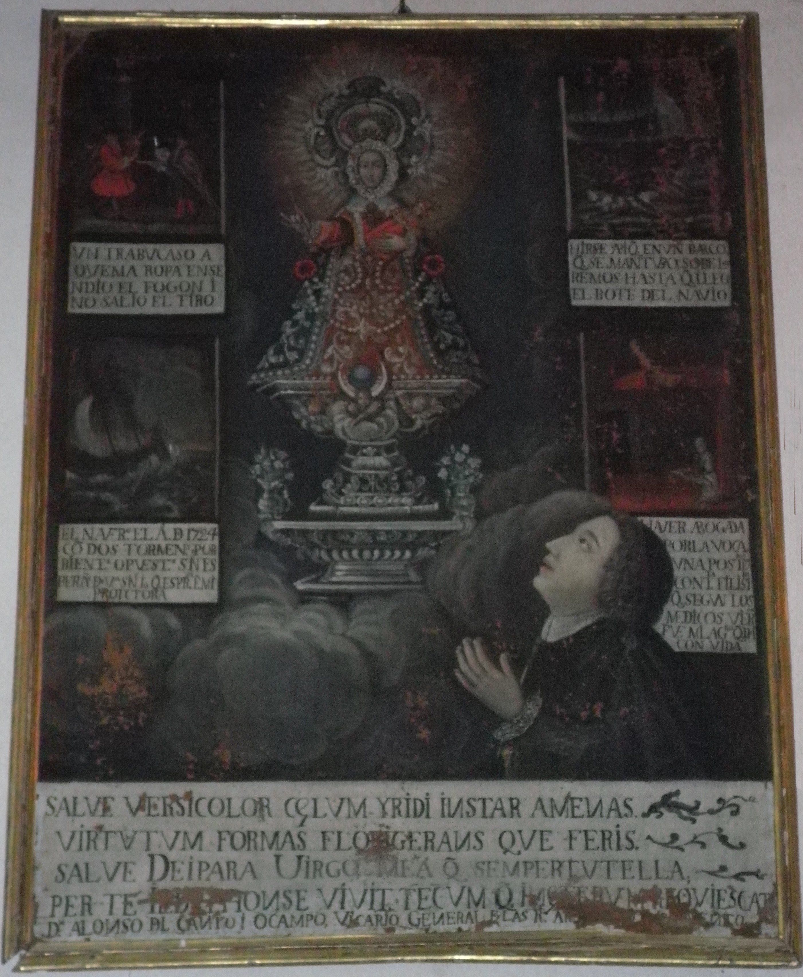 Soterraña Virgin Picture inside Nuestra Señora de la Soterraña church.